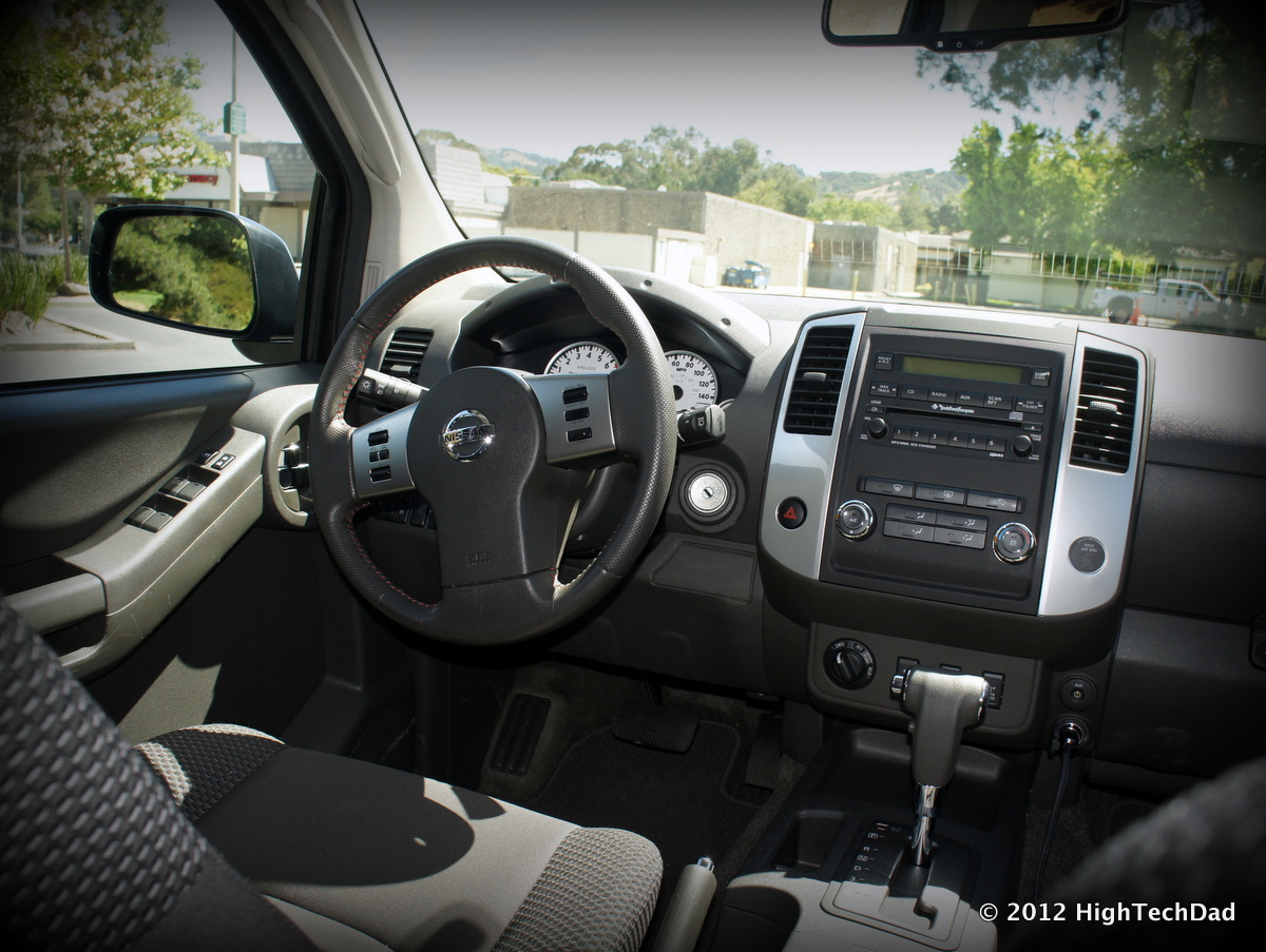 Photos from a 7-day test drive of the 2012 Nissan Xterra Pro-4X. More information can be found at